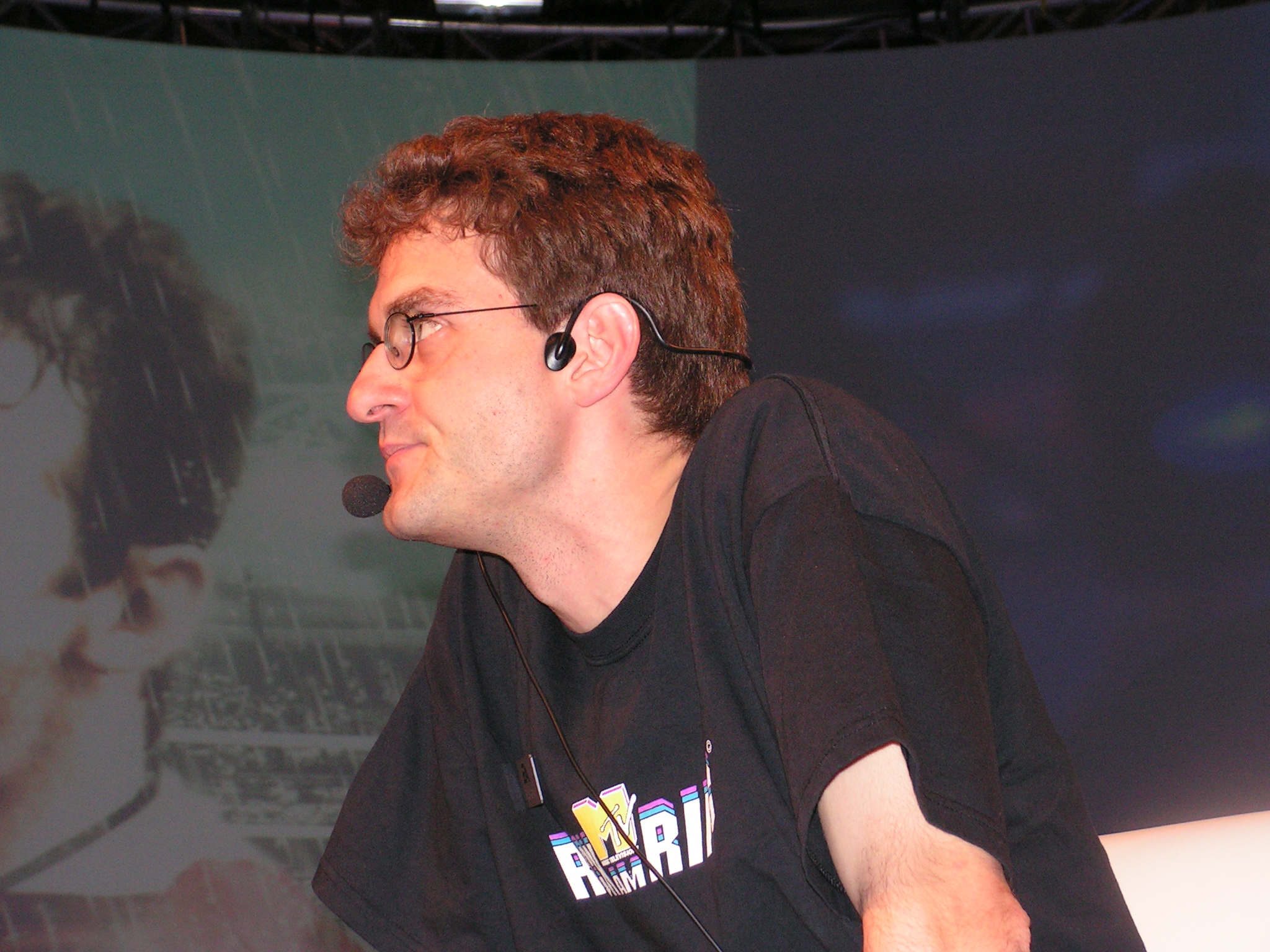 Gerald Köhler at the Games Convention 2005 in Leipzig, presenting his game FIFA Manager 2006